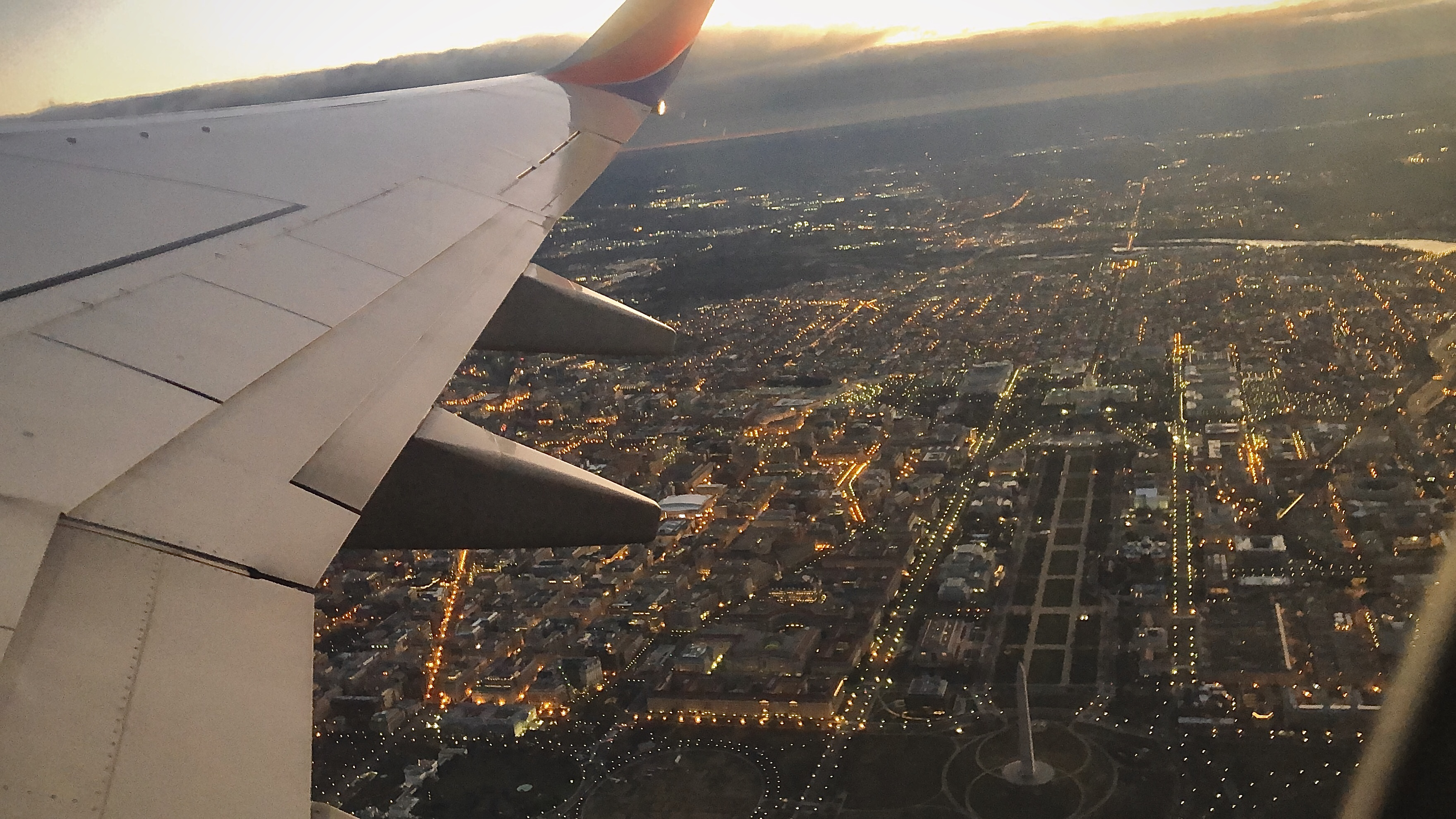 View of National Mall while taking off from Reagan Airport